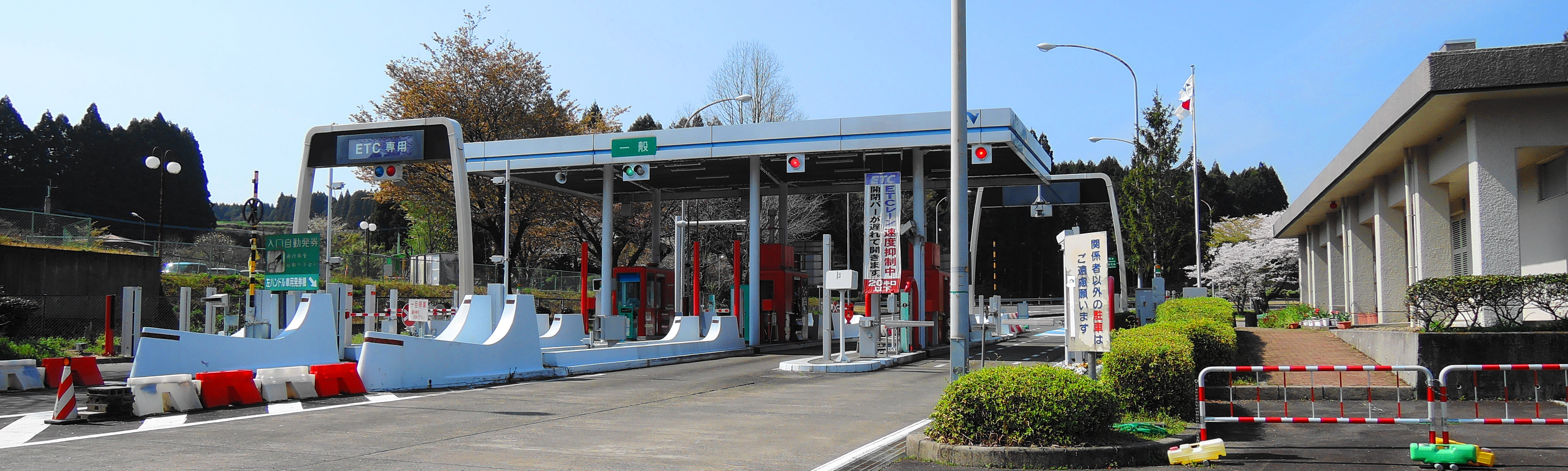 Kobayashi Inter Change,Miyazaki prefecture,Japan